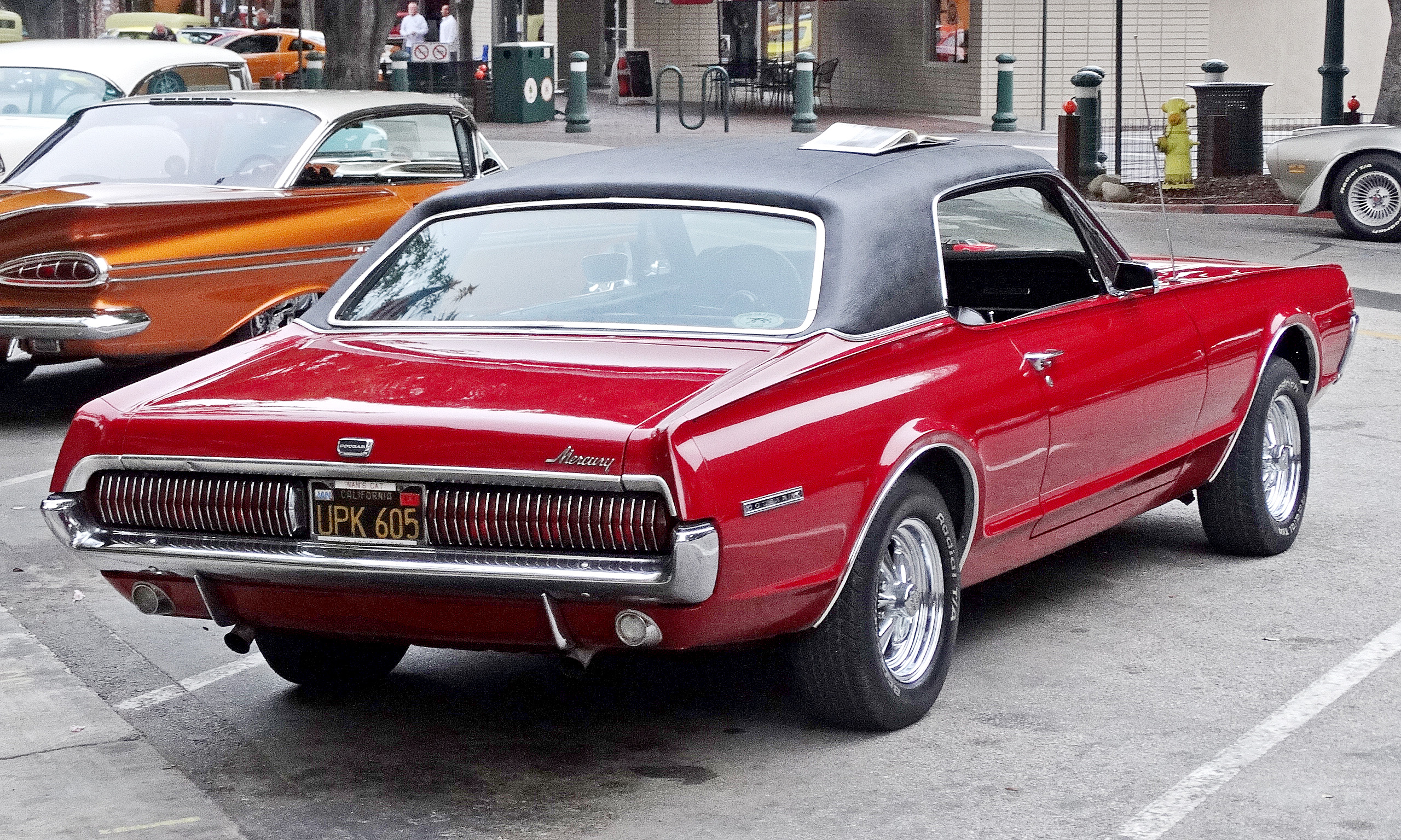 (1 in a multiple picture album) This 1967 Mercury Cougar is owned by me. It is a survivor car from the very first year Mercury made the Cougar to compete with the Ford Mustang. Most people agree that it looks better than a Mustang. Under the skin most of the parts are identical with the pony car.